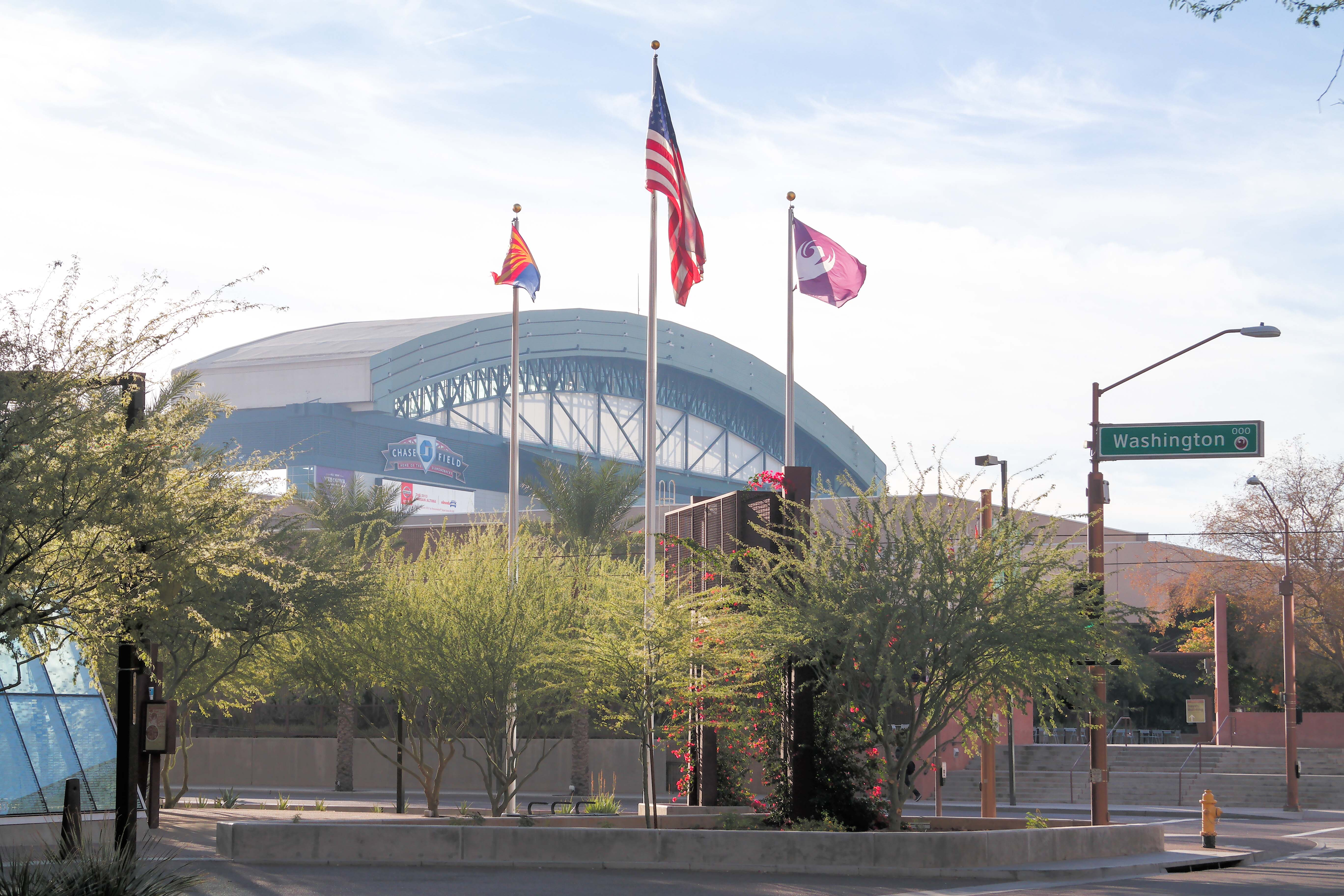 A view of Chase Field in Phoenix, Arizona